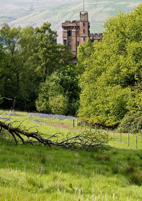 Lennox Castle Taken from Lennox Forest looking north towards the Camsie Fells.